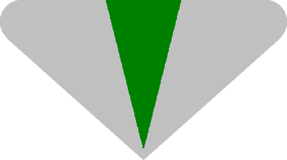 Diagram of a hood of the University of Kent, created by author to illustrate the hood colour scheme. This particular hood denotes a graduate with a Bachelor's degree (as shown by the main silver colour) Category:Images of the University of Kent